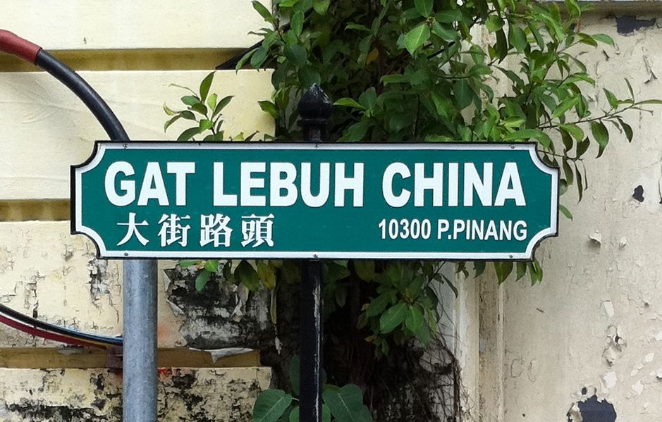 New street sign: China St Ghaut, George Town, Penang